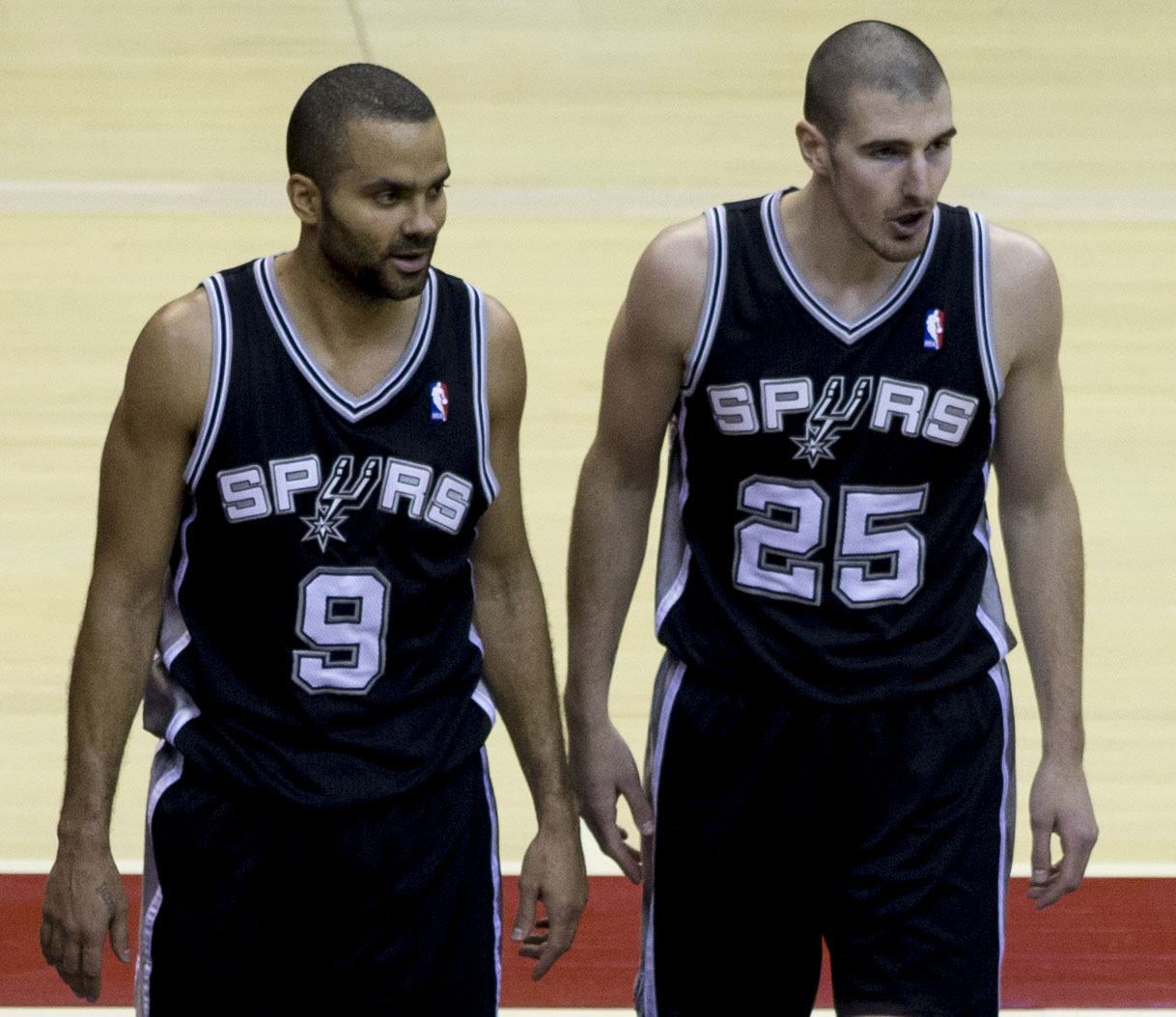 Tony Parker and Nando de Colo playing for San Antonio Spurs away at Washington Wizards